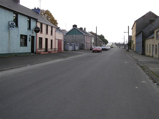 Main Street, Manorcunningham, near to Mainear ui Chuinneagain, Raymoghy, Rossbrackan, Pluck and Magherabeg, Donegal, Ireland. Looking south